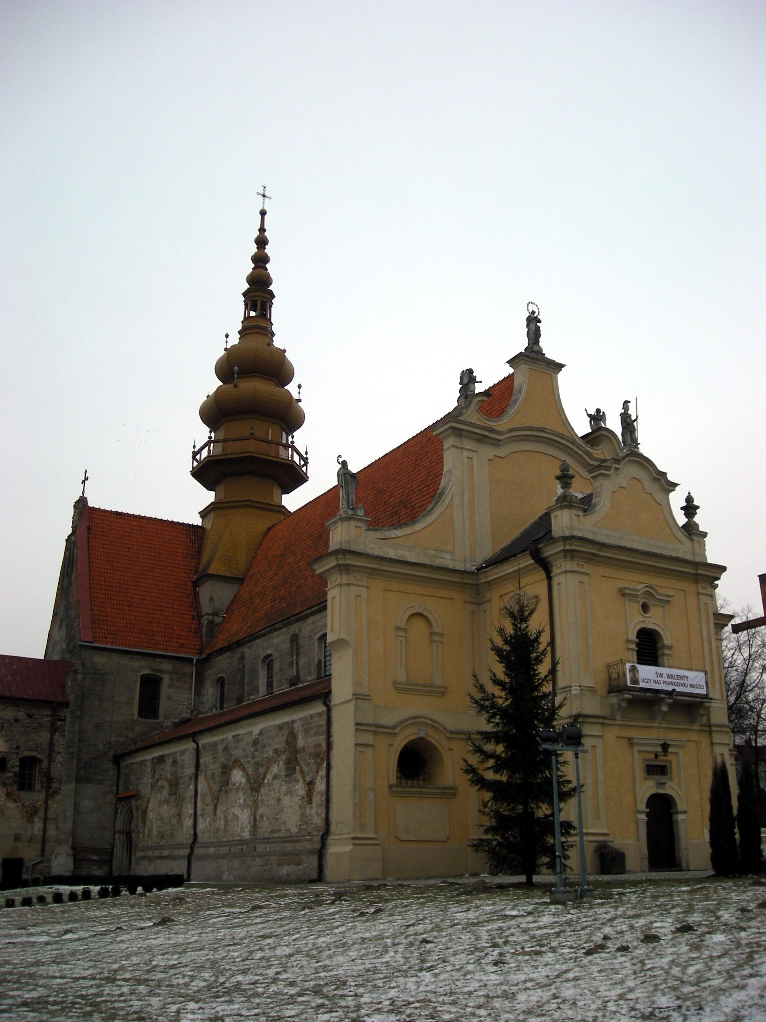 The church in Koprzywnica, Poland.